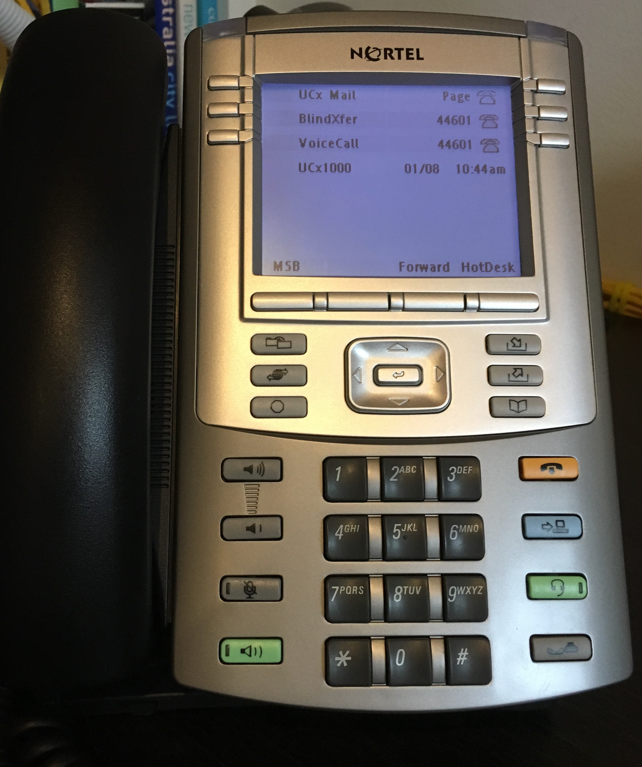 Telephone Photo